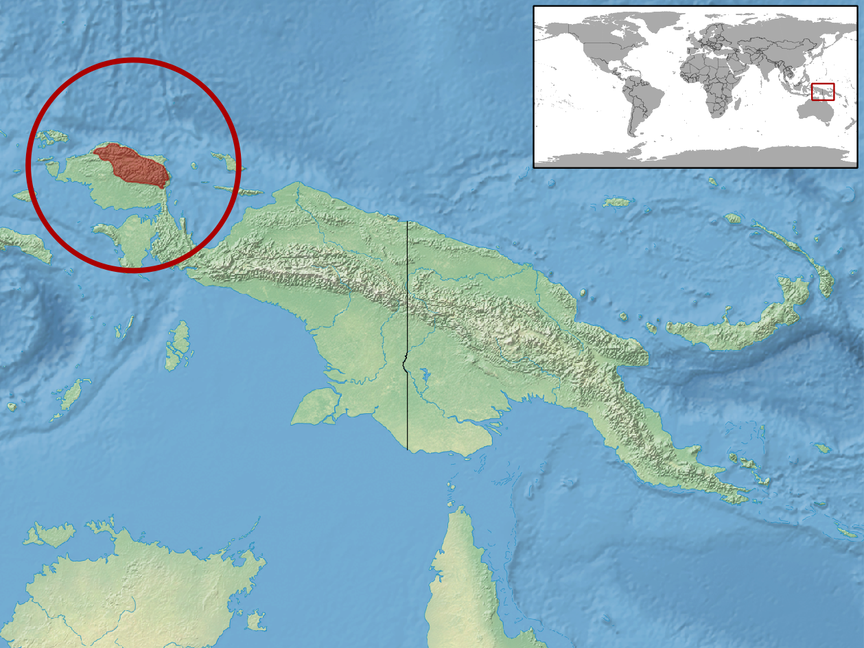 geographic distribution of Hypsilurus bruijnii (Native: Indonesia (Irian Jaya))